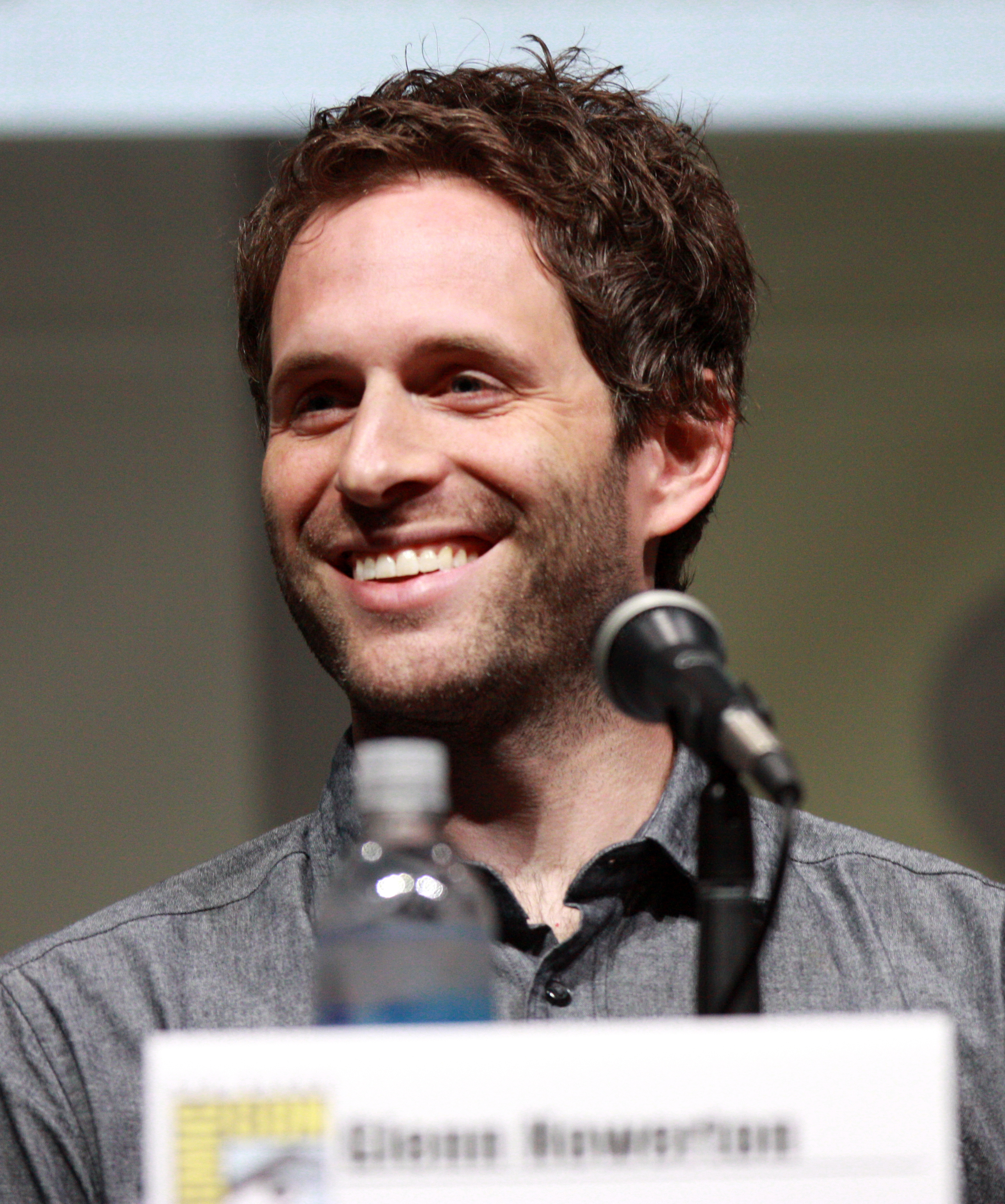 Glenn Howerton at the 2013 San Diego Comic Con International in San Diego, California.